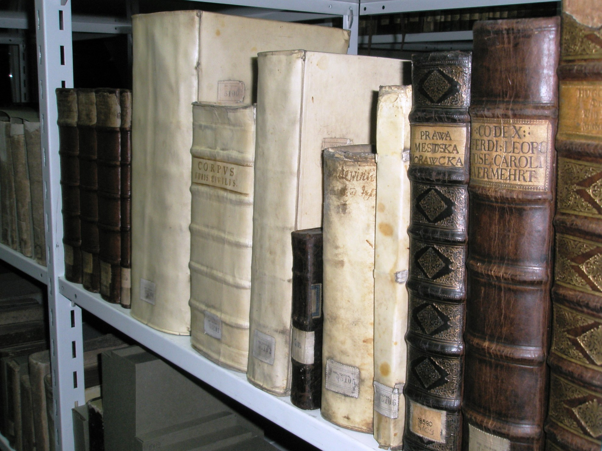 Iuridica in Tschammerian Library of Lutheran Parish in Cieszyn (Teschen)